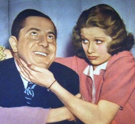 Cropped portion of color title card for 1938 film Go Chase Yourself, starring Joe Penner and Lucille ball. Text and part of image have been cropped out.